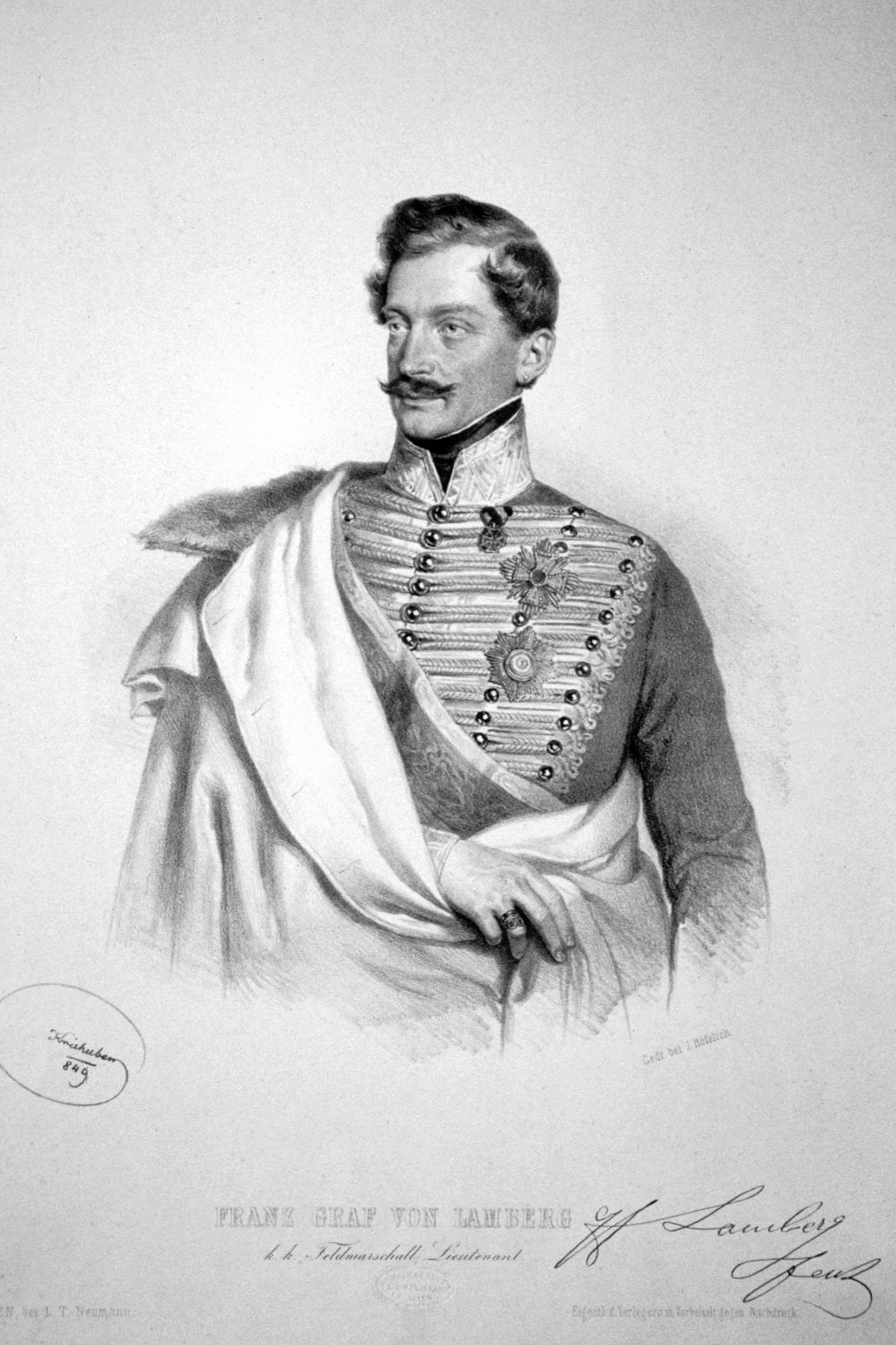 Count Franz Philipp von Lamberg, lieutenant general of the imperial Austrian army